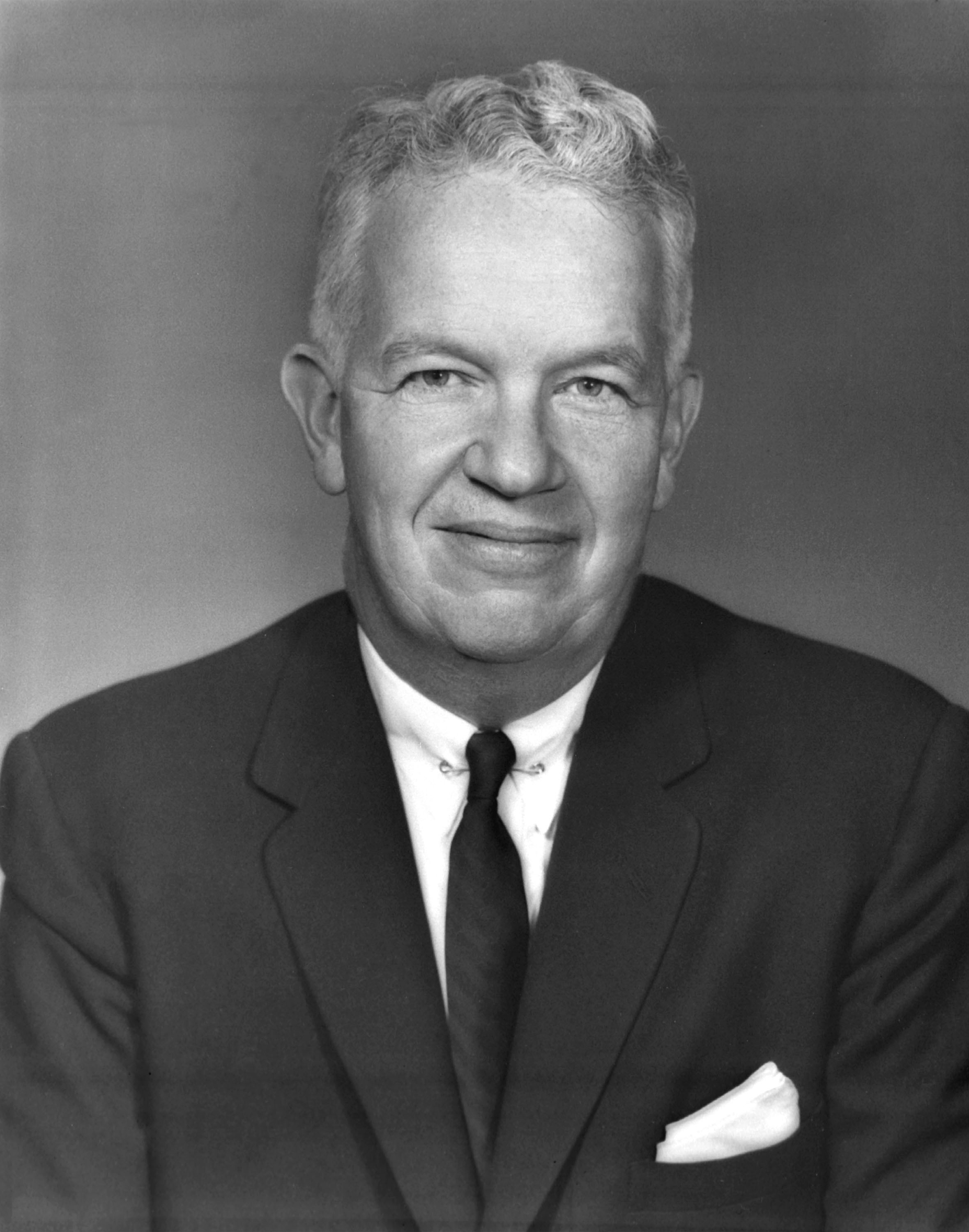 Stephen Ailes, former Secretary of the Army. Stephen Ailes (March 25, 1912 – June 30, 2001) was a prominent member of the District of Columbia Bar and a partner in the firm of Steptoe & Johnson. He served as the United States Under Secretary of the Army from February 9, 1961 to January 28, 1964 and as United States Secretary of the Army from January 28, 1964 to July 1, 1965. He received his undergraduate education at Princeton University, and attended the law school of West Virginia University, where he was a member of Phi Kappa Psi Fraternity.